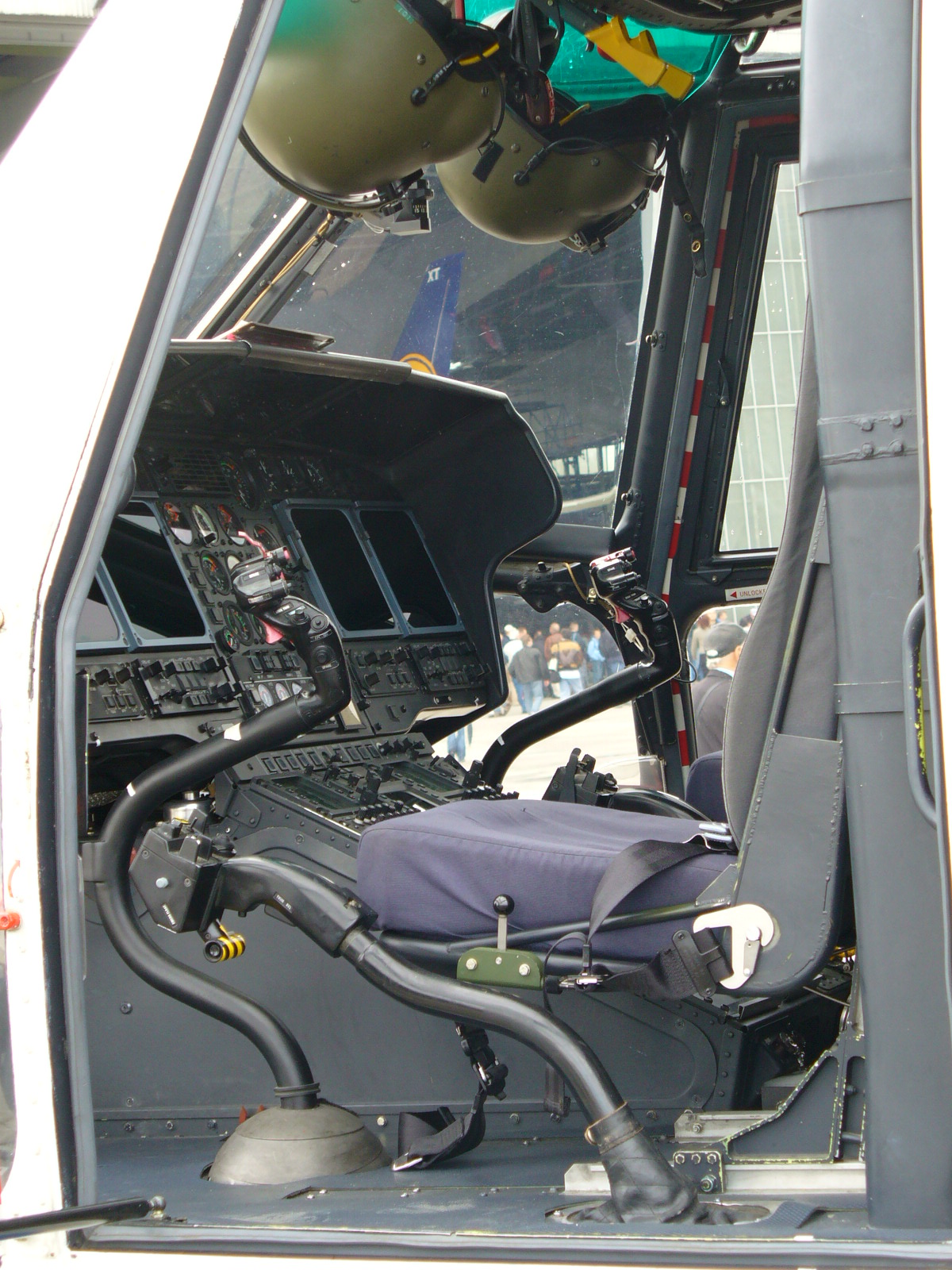 Wnętrze kabiny śmigłowca Eurocopter AS 532 Cougar; ILA 2006 The inside of the cockpit of Eurocopter AS 532 Cougar; ILA 2006